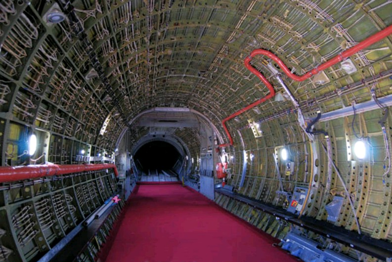 View (looking aft) of the cargo deck of a U.S. Air Force Douglas C-133B-DL Cargomaster (s/n 59-0536, c/n 45587) at the USAF Air Mobility Command Museum at Dover Air Force Base, Delaware (USA).